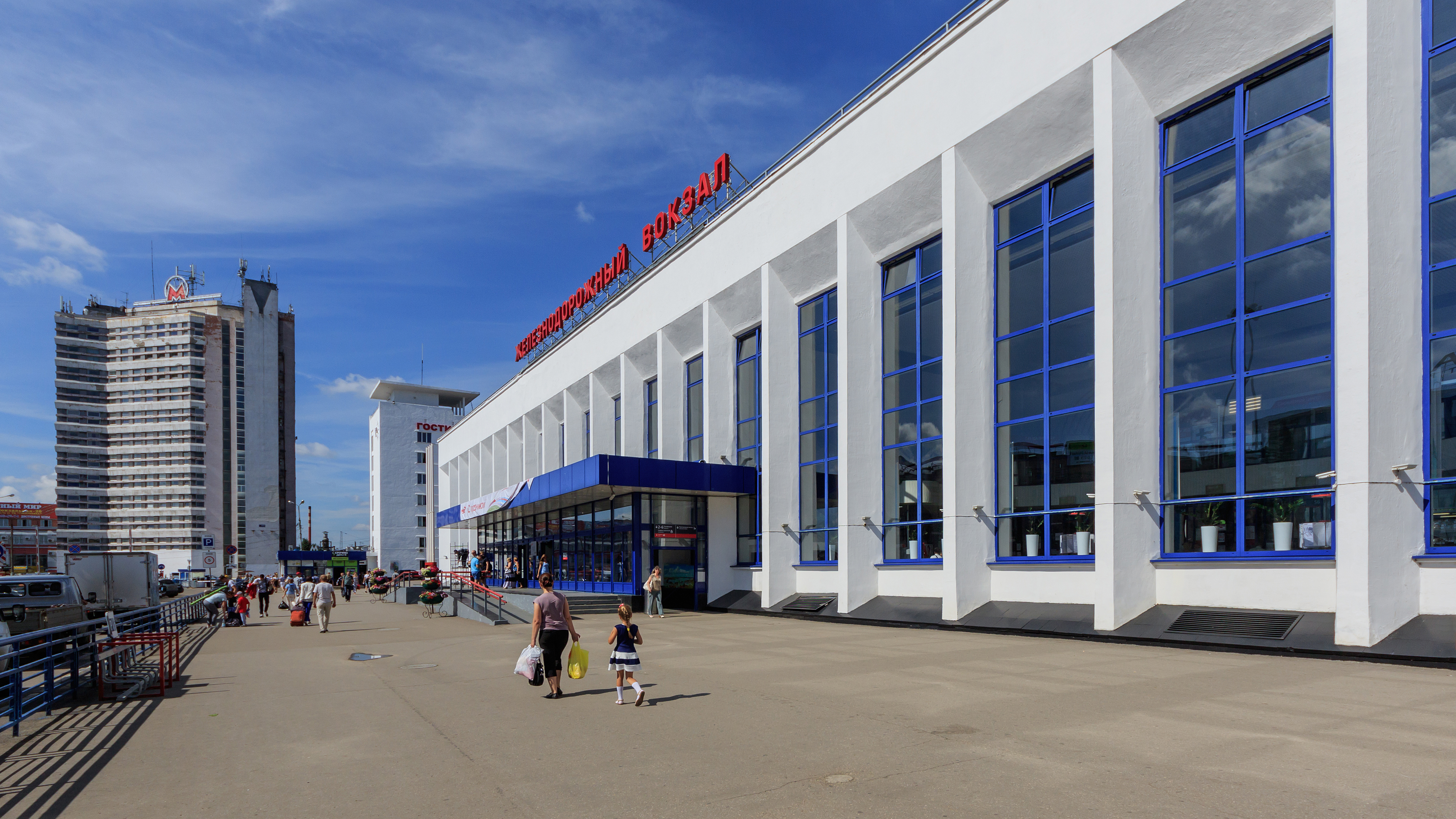 Building of Moskovsky Railway Terminal. Nizhny Novgorod, Russia.